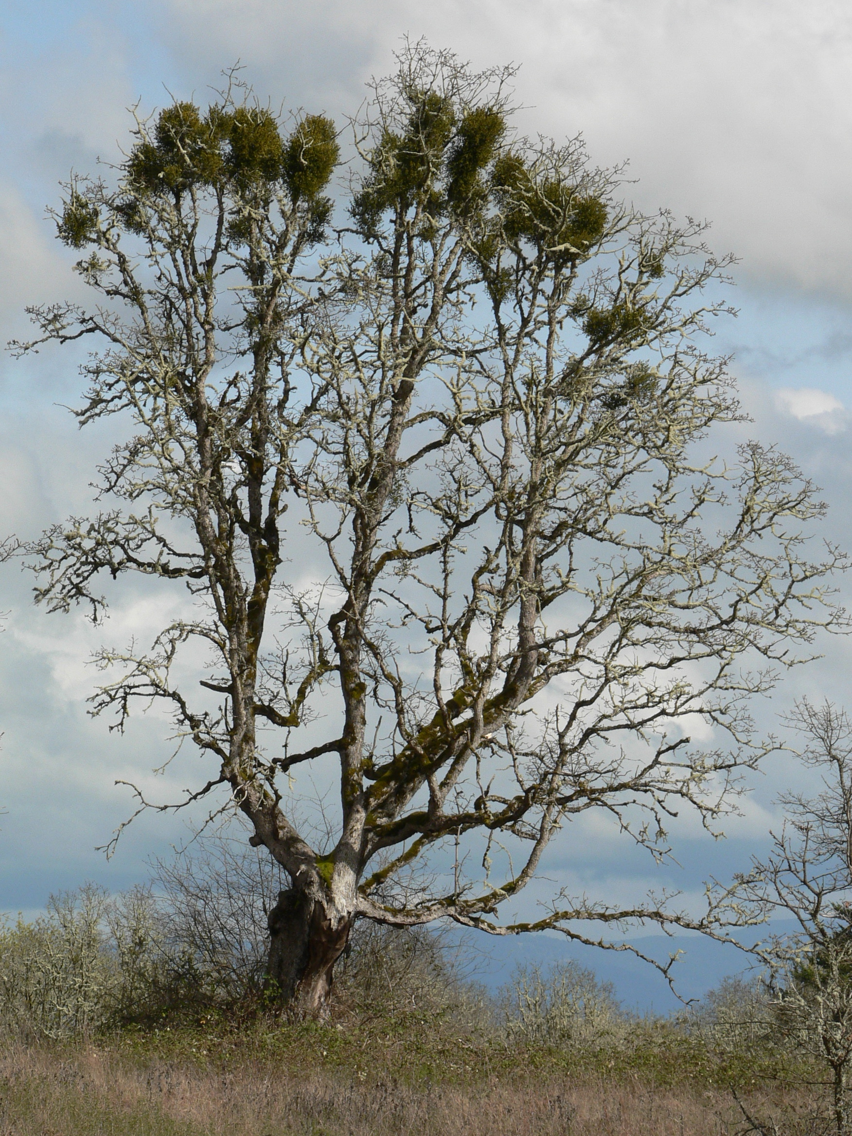 Phoradendron leucarpum Description: Pacific Mistletoe (Phoradendron leucarpum (Nutt.) Nutt.) on Garry Oak (Quercus garryana) var. garryana Viewpoint location: 50 m east of pond, Woodpecker Trail, William L. Finley National Wildlife Refuge, Oregon, USA. Lat/Long: 44.4151°N, 123.3380°W (WGS84/NAD83) USGS Greenberry Quad [1] Viewpoint elevation: 400 feet View direction: N/A Date and time: 2006.04.01 15:26:10 PST Camera: Panasonic Lumix DMC FZ5 Photographer: Walter Siegmund ©2006 Walter Siegmund